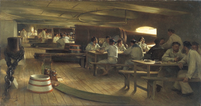 "Diner de l'equipage" Oil on Canvas by Julien Le Blant, 1890